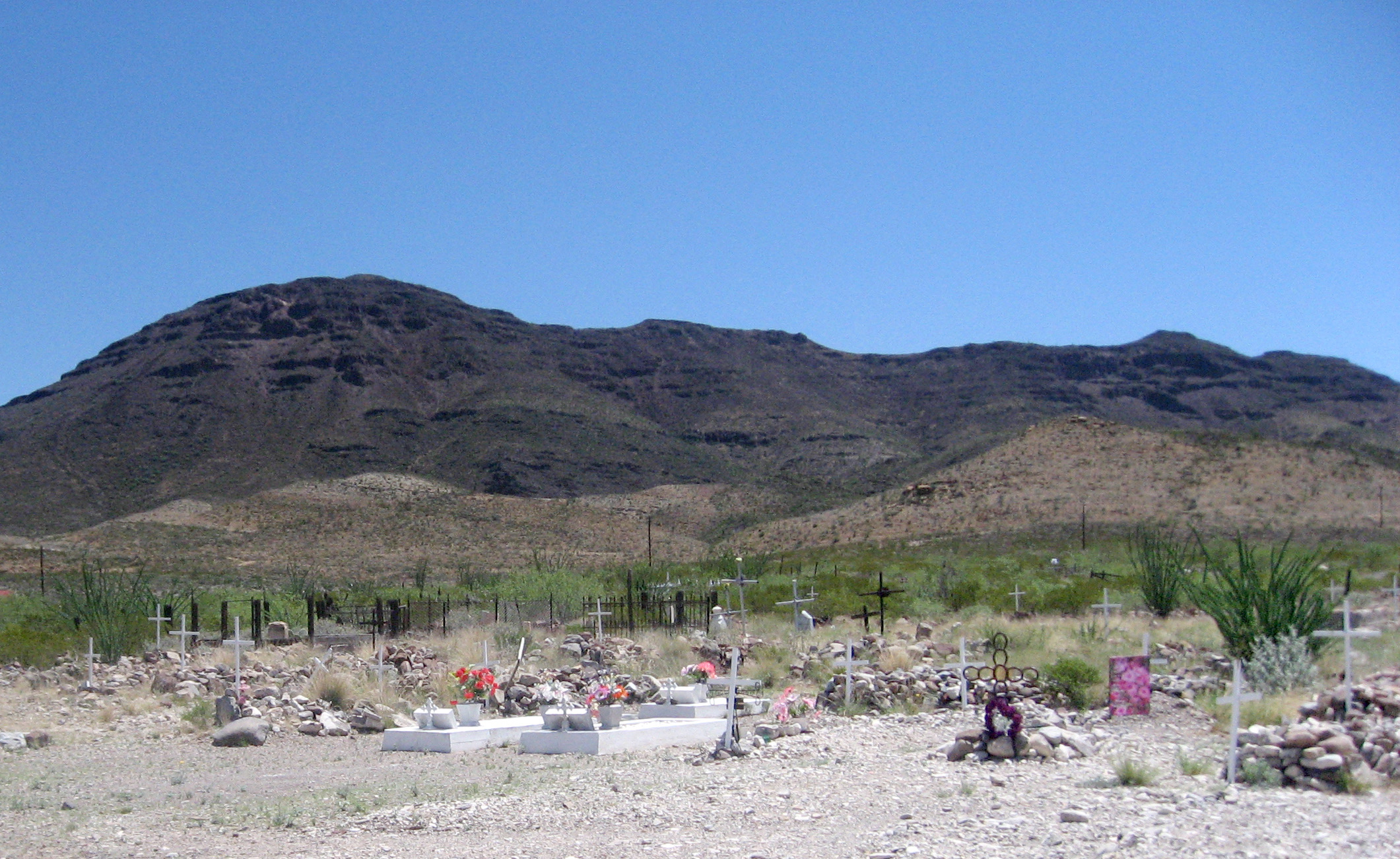 Shafter was once a major silver mining town. It was once considered the silver capital of Texas.